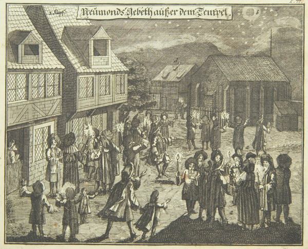 Rosh Chodesh, from Juedisches Ceremoniel, a German book published in 1724.